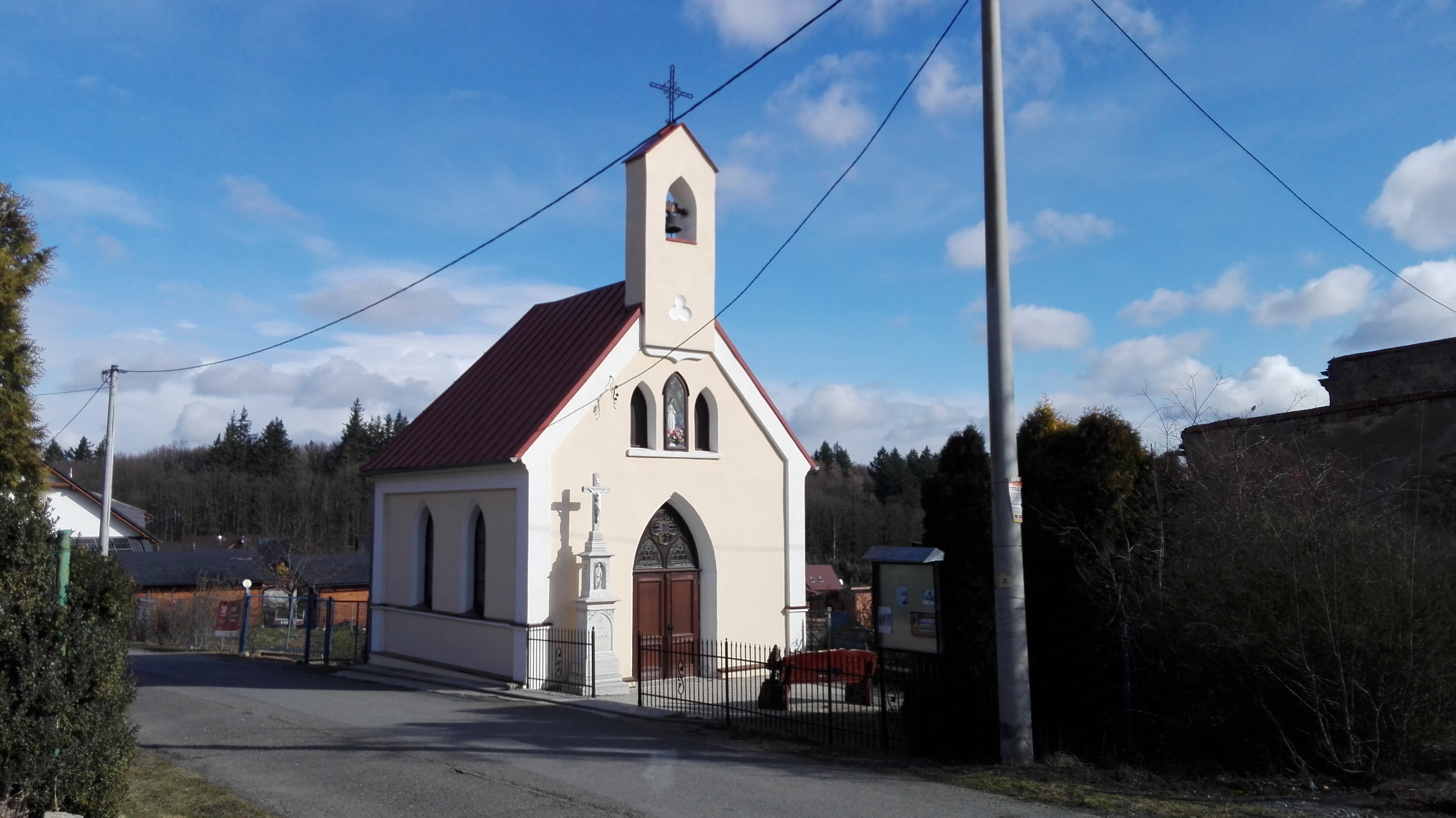 Chapel in Dębowiec, Poland. 06.1958.